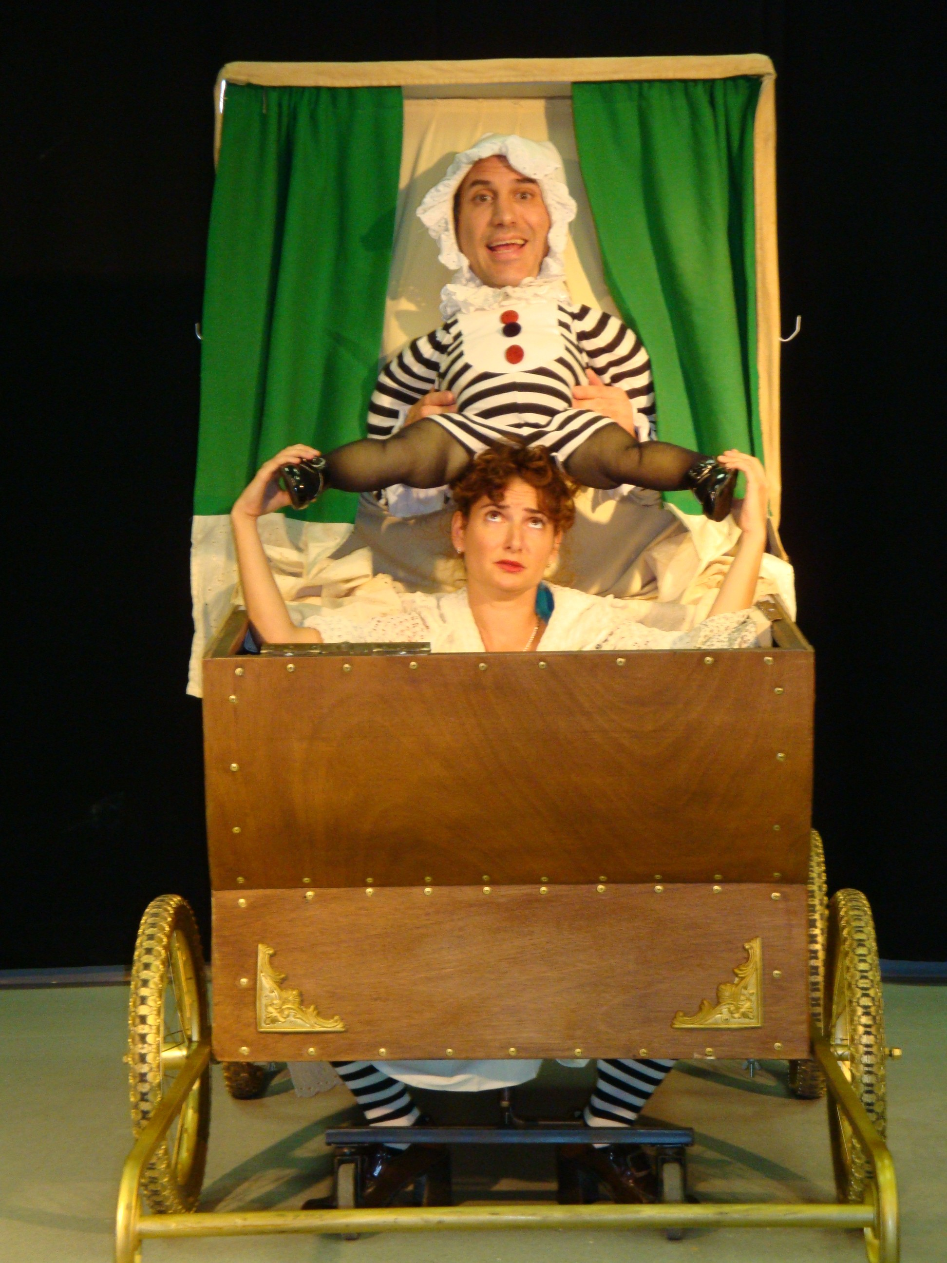 Avi Zlicha & Osher Gil'ad in The Key Theatre's "El Bebe".